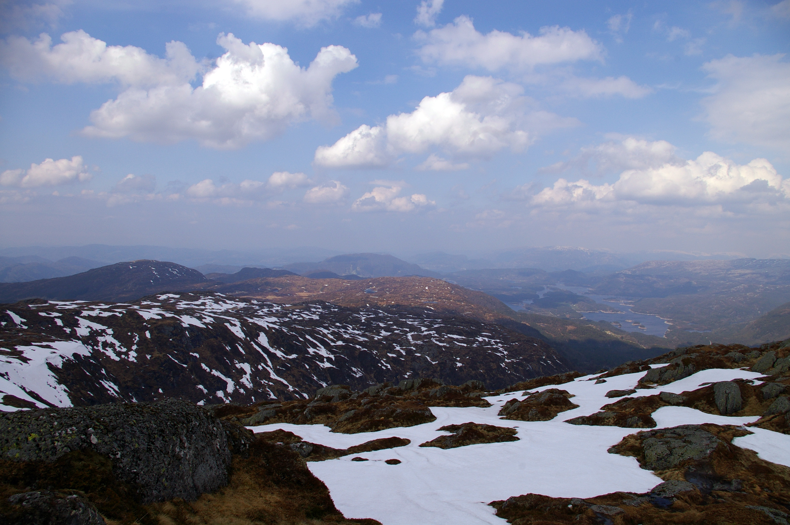 Central areas of Osterøy, Hordaland, Norway seen from the top of Brøknipa.